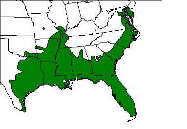 Map of the approximate range of the American green tree frog ( Hyla cinerea).